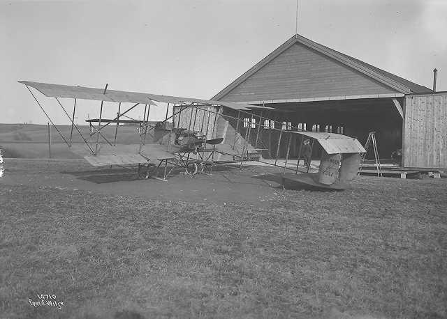 Kjeller Airport in Norway with Ganger Rolf, a Maurice Farman MF.7, the first aircraft belonging to the Norwegian Air Force.